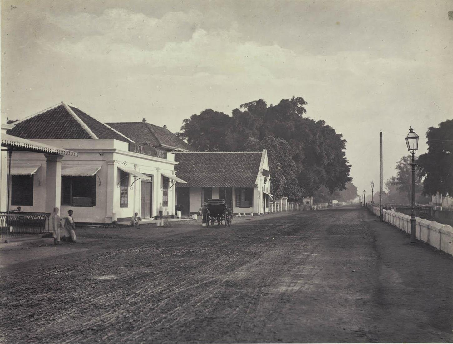 Hotel Des Indes in 1875